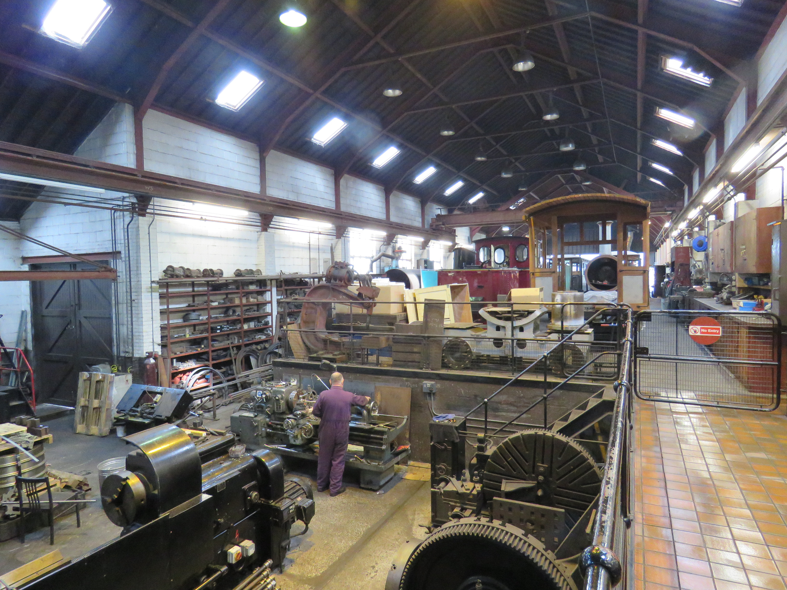 Pant workshop, Brecon Mountain Railway